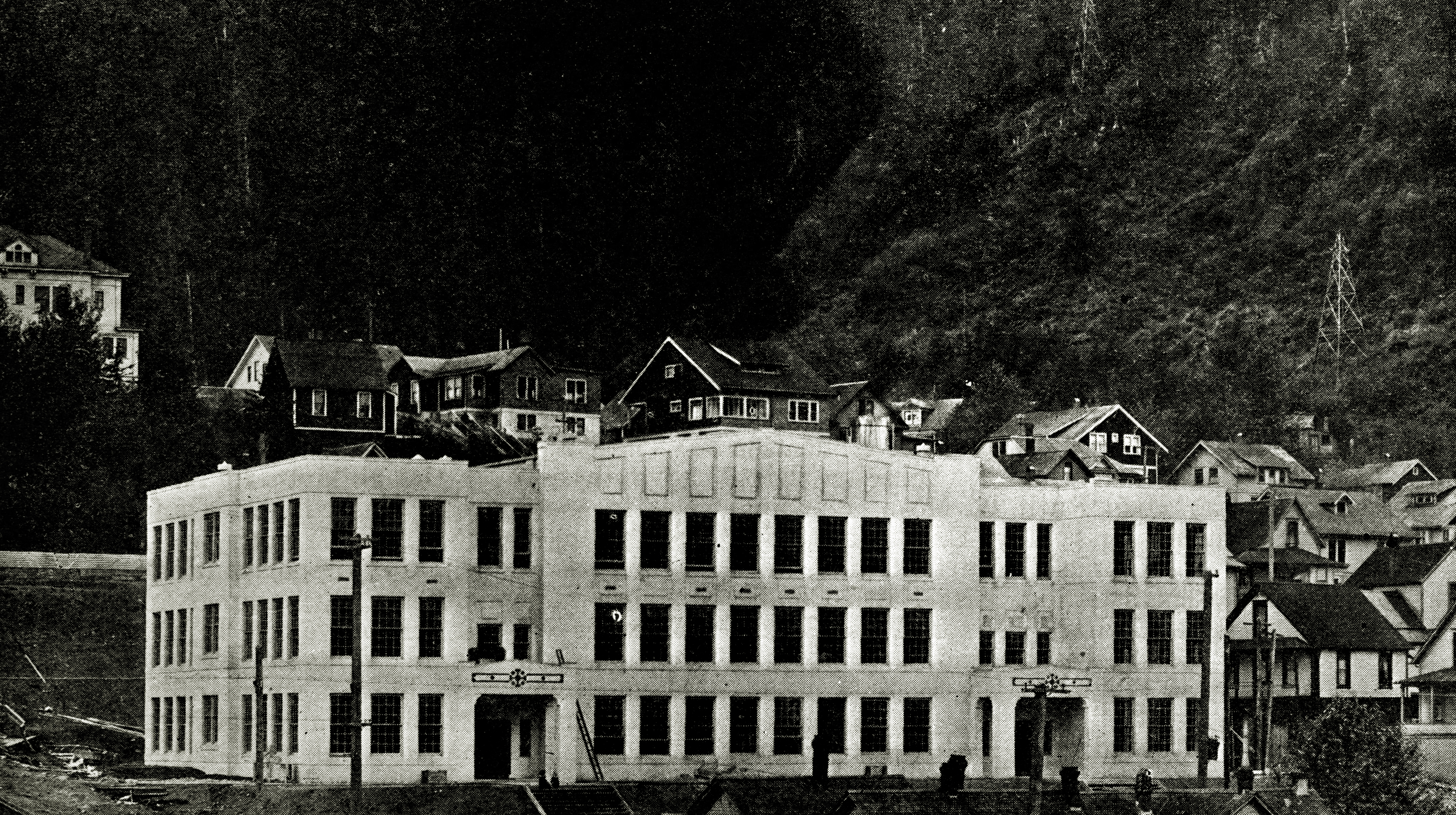 One of the two old school buildings in Juneau, Alaska, located along Fifth Street on the block uphill from the present Alaska State Capitol. Houses of the Chicken Ridge Historic District neighborhood and Mount Juneau can be seen in the background.